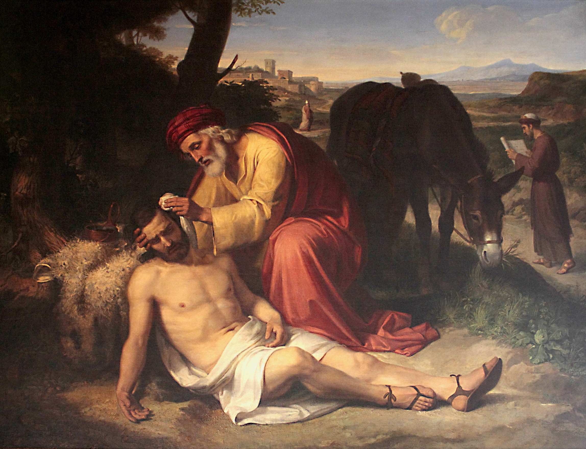 The Good Samaritan, oil on canvas, 187 x 241 cm (inv. 217)